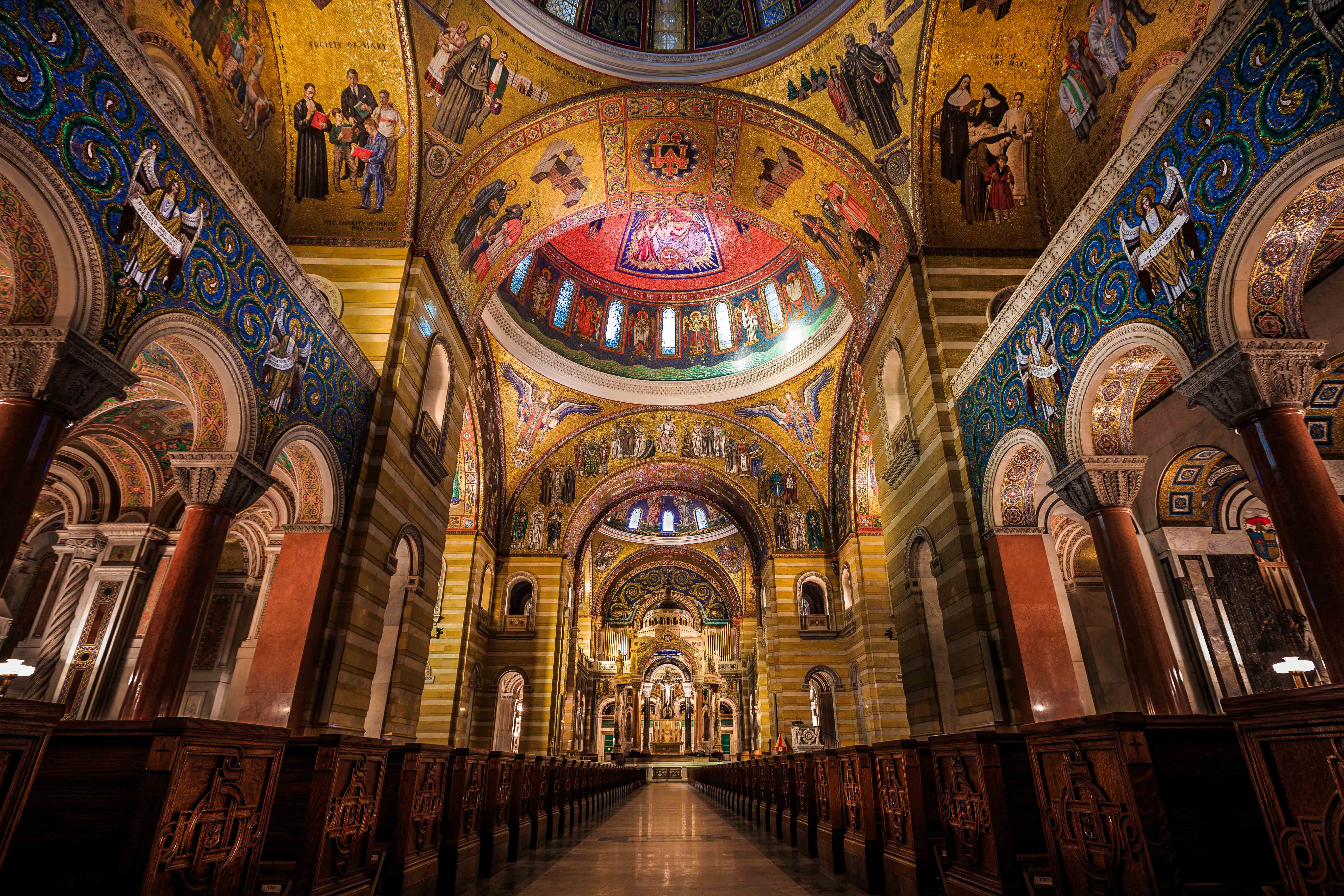 This is the main isle of the beautiful St. Louis Cathedral Basilica located in St. Louis, MO.